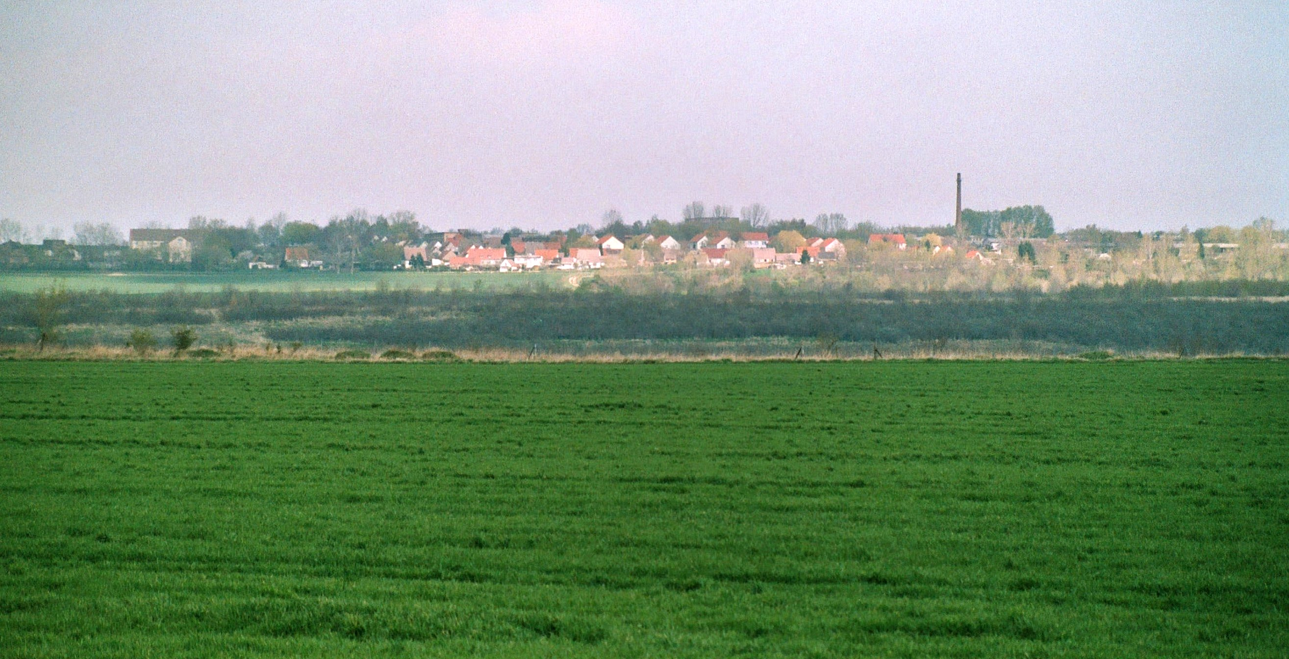 View to Neu Königsaue (Aschersleben)